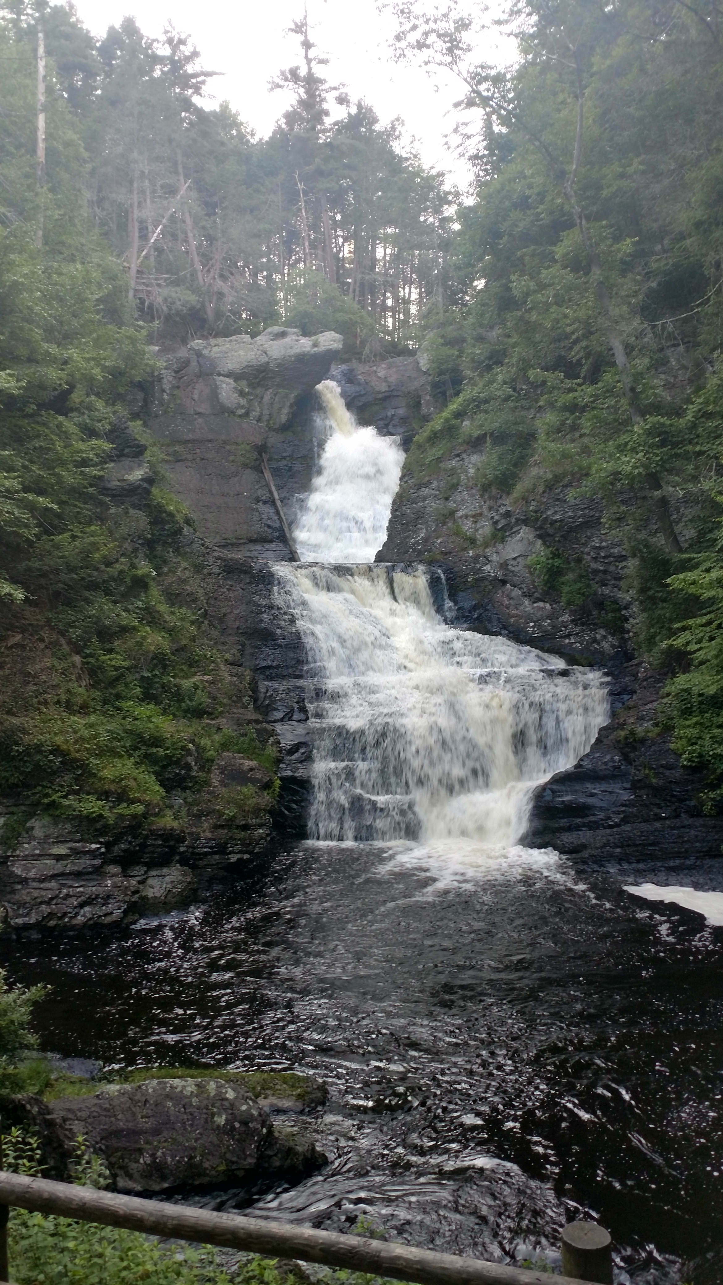 Fulmer Falls View